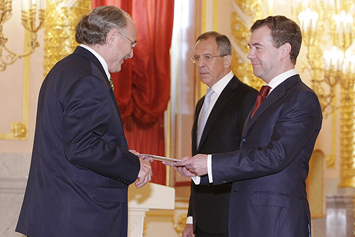 THE KREMLIN, MOSCOW. Presentation by foreign ambassadors of their letters of credence. Ambassador of the Swiss Confederation Walter B. Gyger presents his letter of credence to the President of Russia.